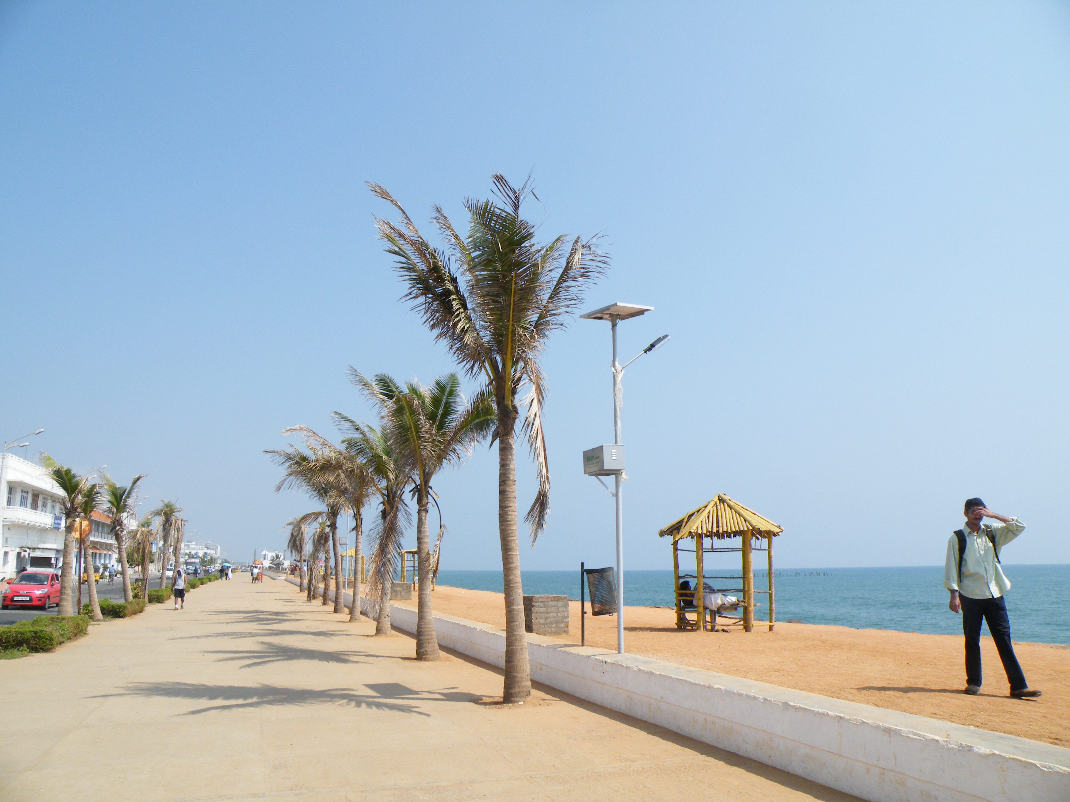 Rock-beack-at-rue-de-bussy-puducherry